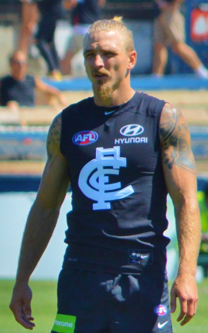 Dennis Armfield during the 2017 pre-season series